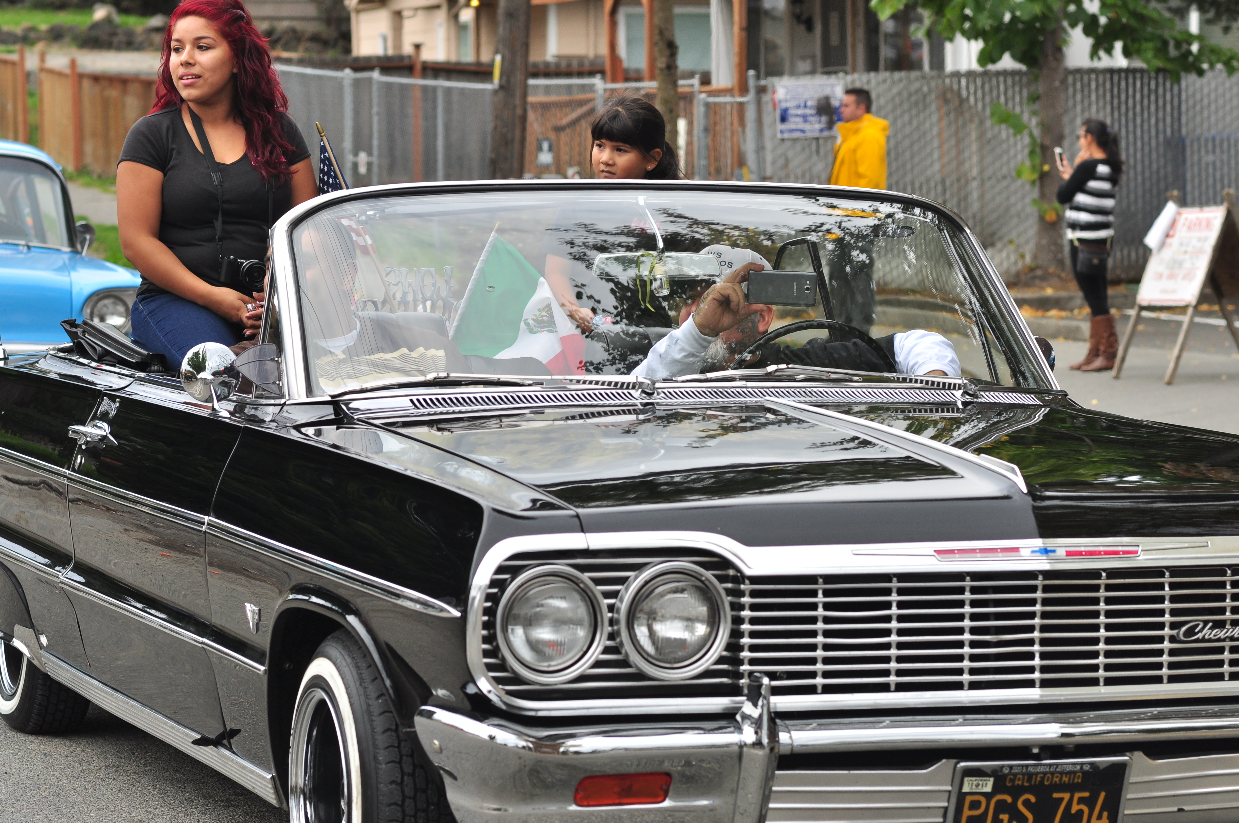 Fiestas Patrias Parade, South Park, Seattle, Washington, U.S., September 19, 2015 - 367 - lowriders